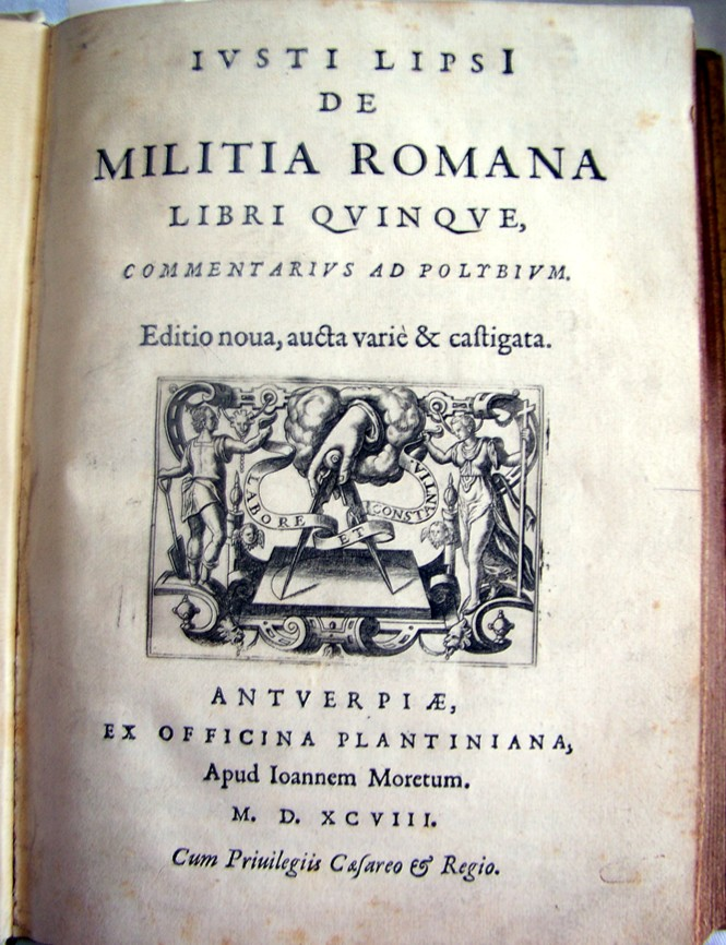 De Justus Lipsius : de Militia Romana, Antwerpen 1598.